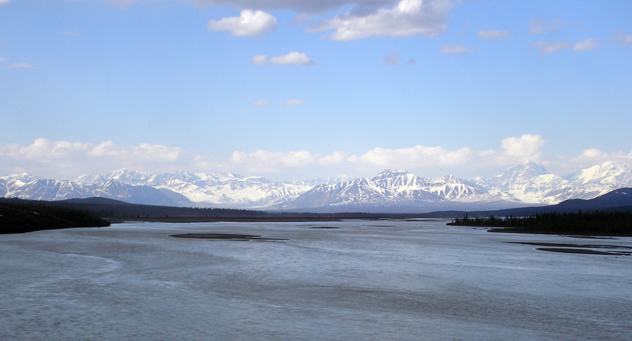 Susitna River from Denali Highway, Alaska